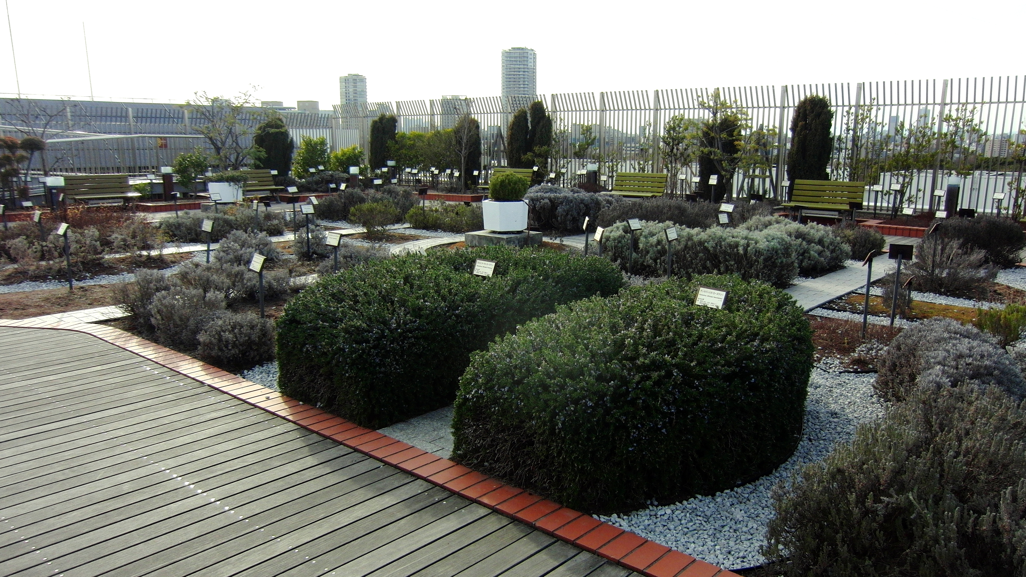 Herb garden. Roof of Global Gallery of the National Museum of Nature and Science, Tokyo, Japan.